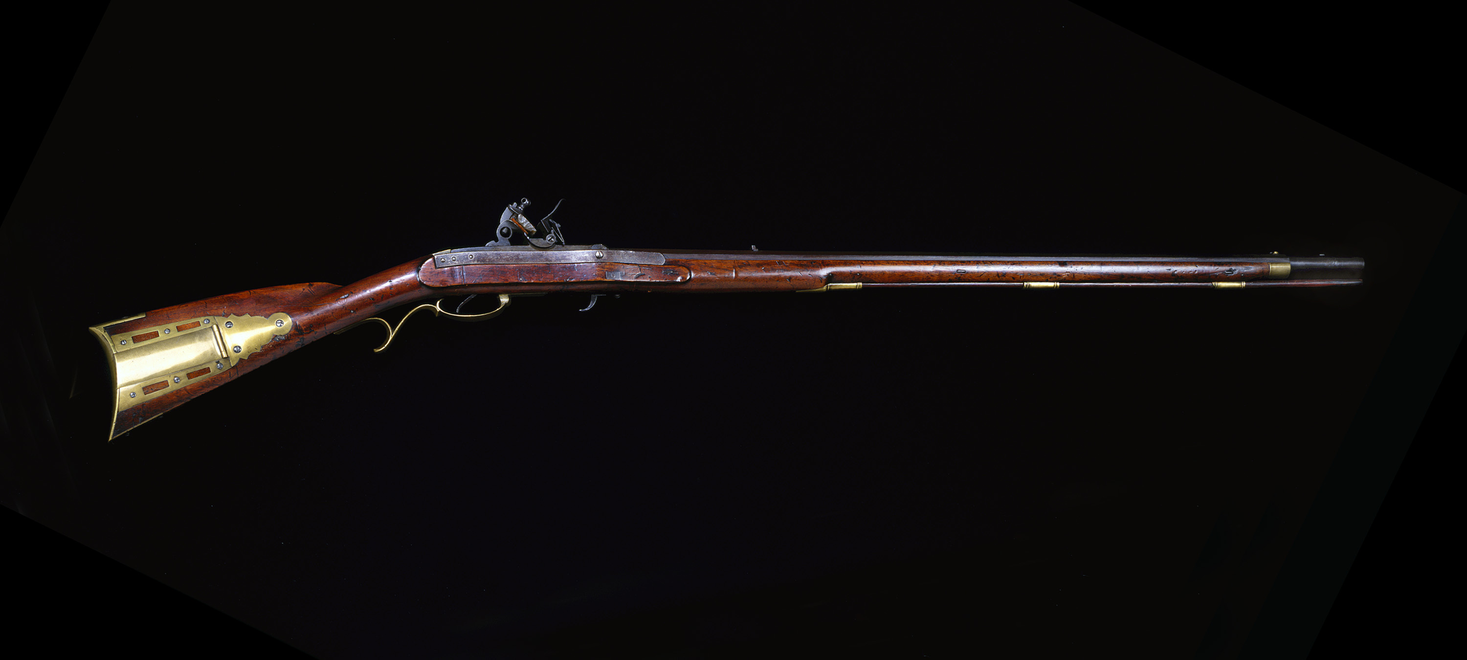 Extremely rare Model 1817 U.S. contract breechloading flintlock rifle from John H. Hall's first government contract for 100 firearms, which were sent to Fort Bellefontaine. Fewer than five examples are known to exist.Title: Model 1817 Hall U.S. Contract Breechloading Flintlock Rifle